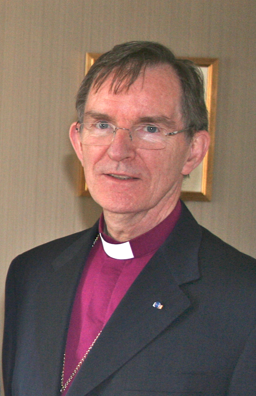 A photo of former Bishop of Iceland Karl Sigurbjörnsson, cropped from the original